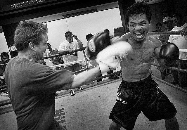 Manny "pacman" Pacquiao with his coach Freddie Roach... the man is a hero here in the philippines.